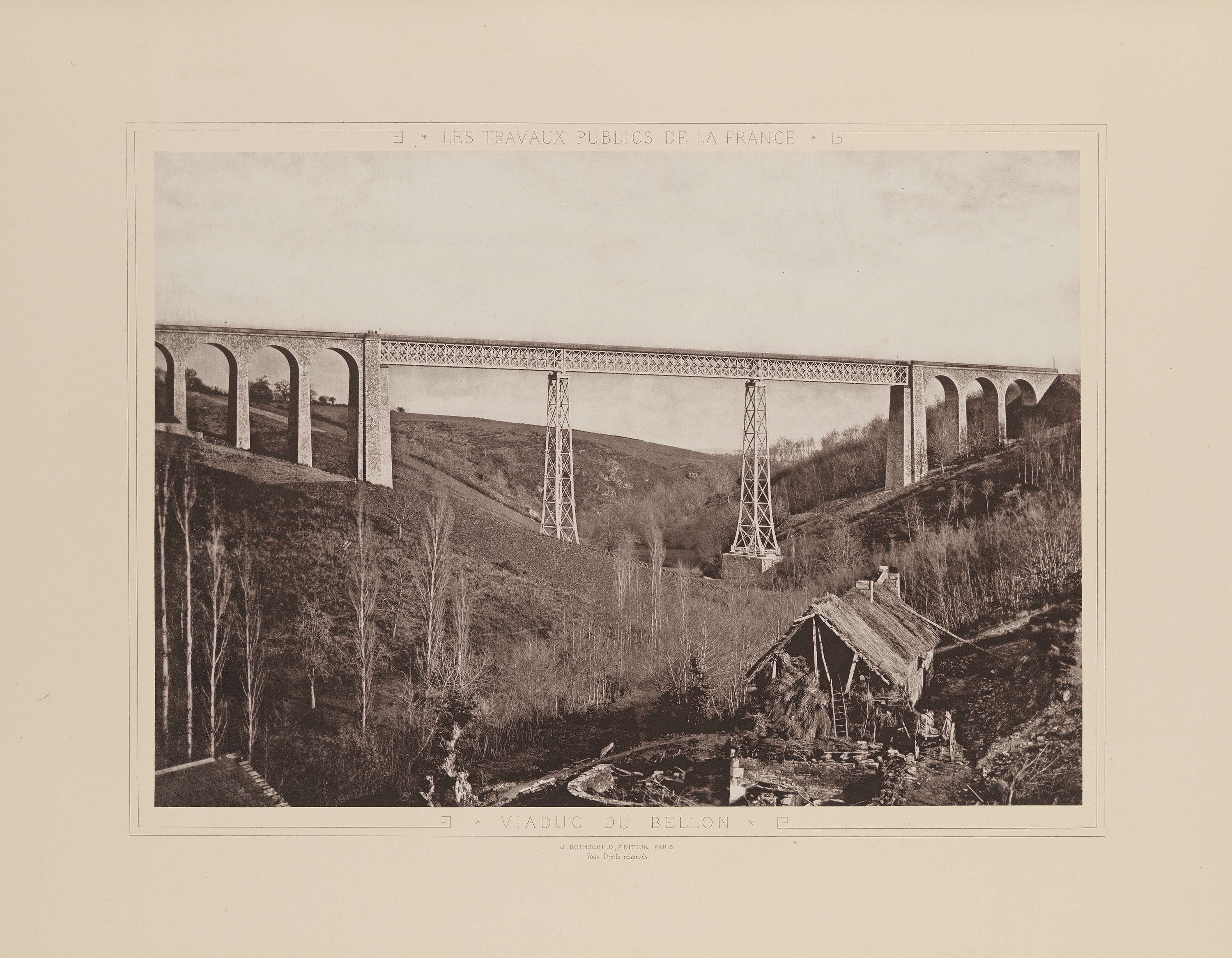 Title: Viaduc du Bellon Alternative Title: Bellon Viaduct Creator: Unknown Date: 1883 Part Of: Les Travaux Publics de la France, Tome Deuxieme: Chemins de Fer Place: Coutansouze, Allier, Auvergne, France Physical Description: 1 photographic print: collotype; 26 x 35 cm on 40 x 56 cm mount File: vault_folio_2_ta71_a4_1883_2_14_opt.jpg Rights: Please cite Southern Methodist University, Central University Libraries, DeGolyer Library when using this image file. A high-quality version of this file may be obtained for a fee by contacting . For more information, see